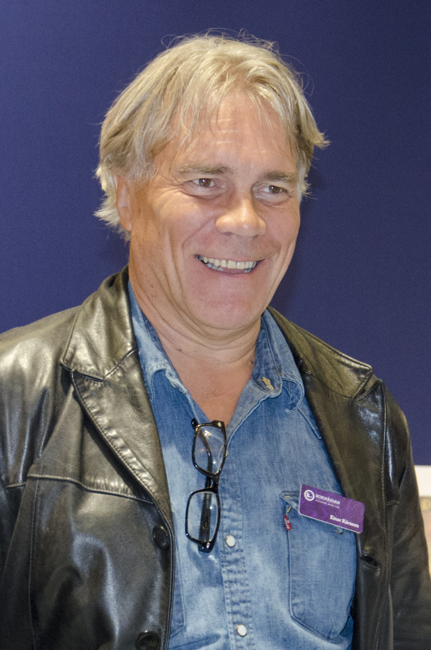 Einar Kárason at the Gothenburg Book Fair 2015.